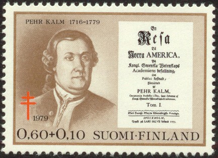 Postage stamp depicting the famous Finnish explorer, botanist, naturalist, and agricultural economist Pehr Kalm